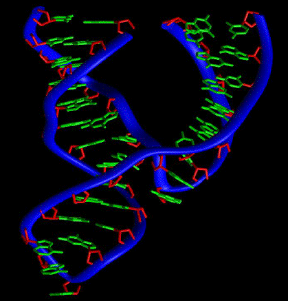 Hammerhead ribozyme